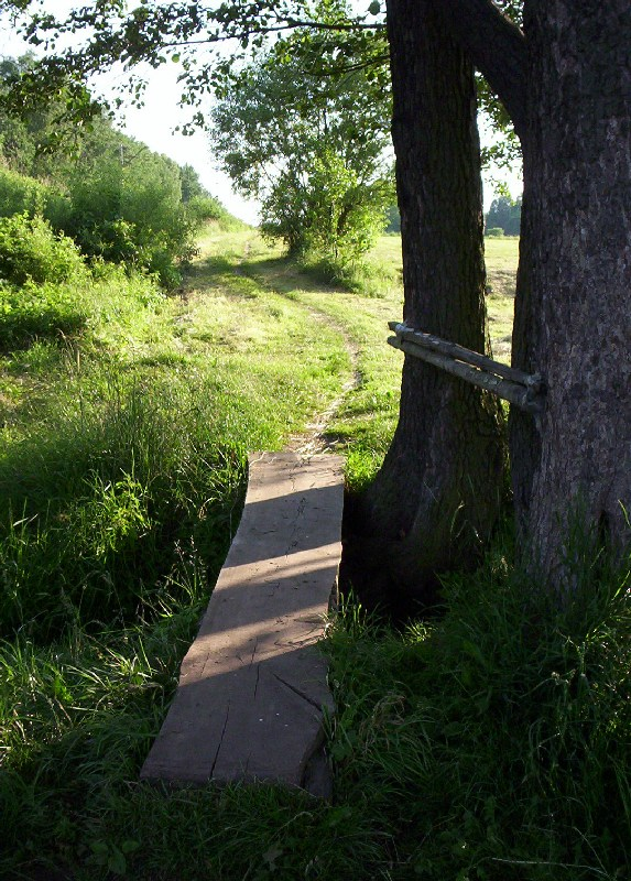 Footpath and footgridge in Bolimowski Park Krajobrazowy near Żyrardów (Mazovia, Poland)